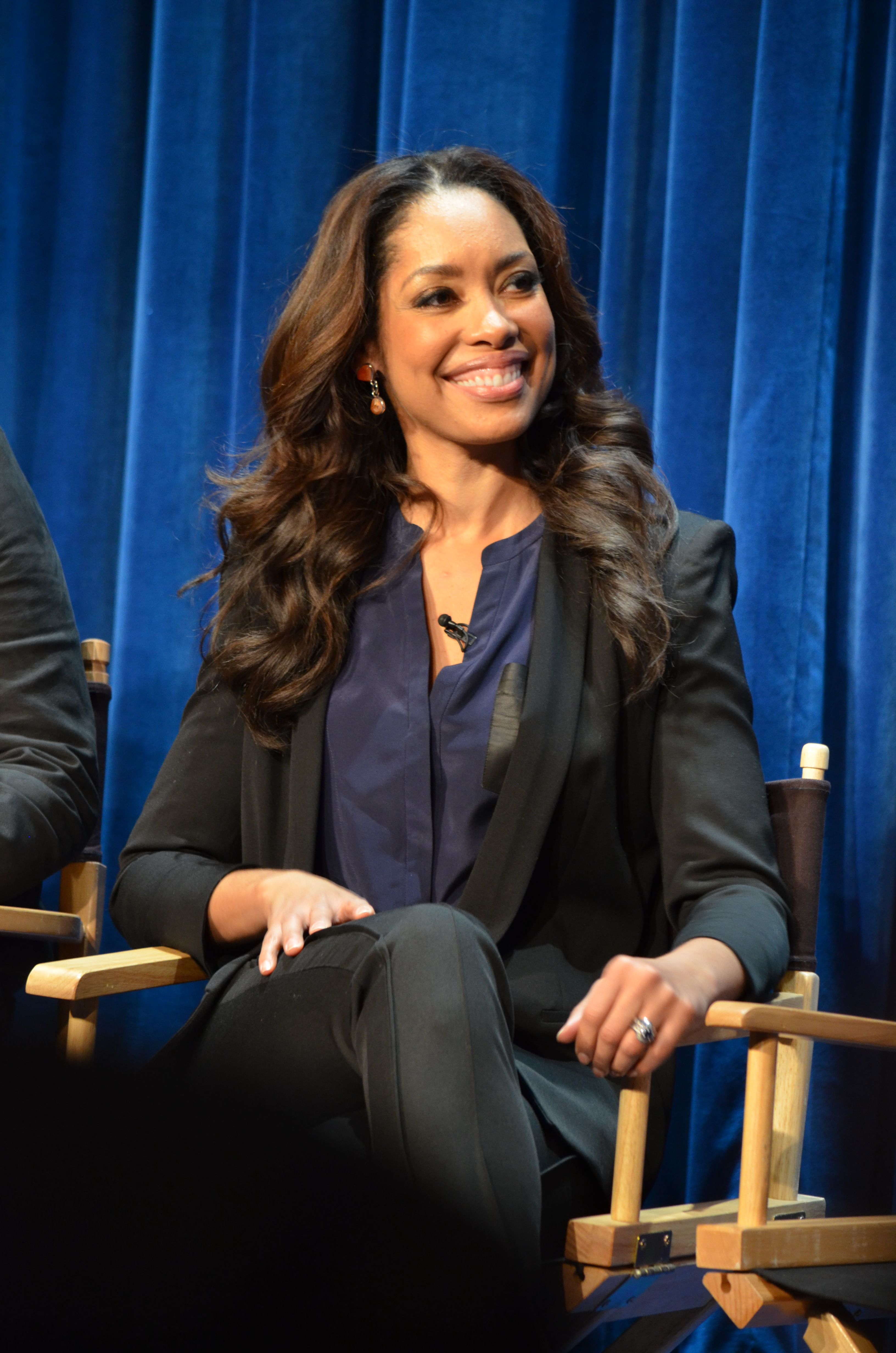 Gina Torres at a promotional event for the TV show Suits